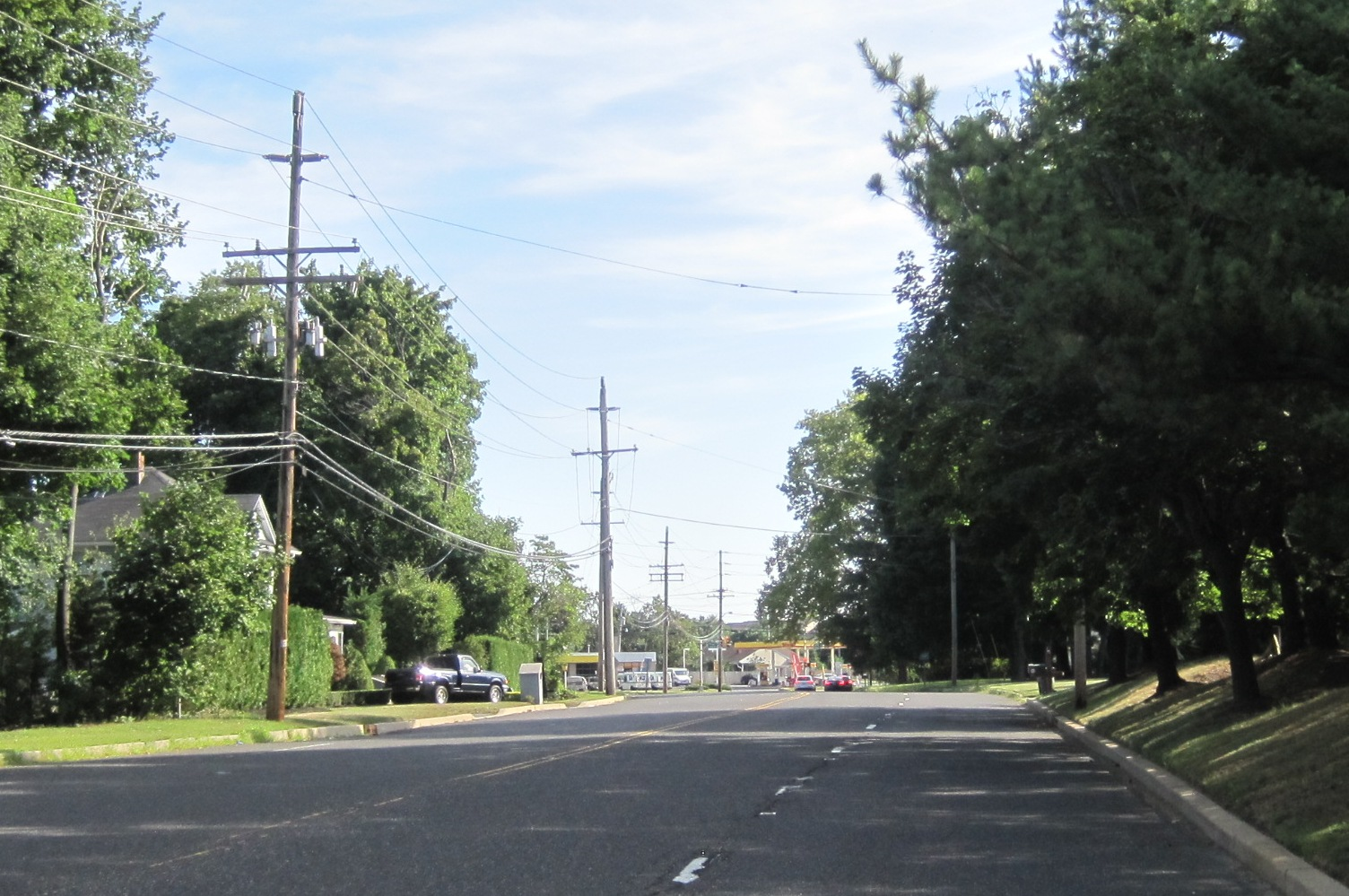 Photo of Half Acre, New Jersey, an unincorporated community within Monroe Township, Middlesex County. Photo taken along northbound Half Acre Road (County Route 615) approaching Prospect Plains Road (CR 614).